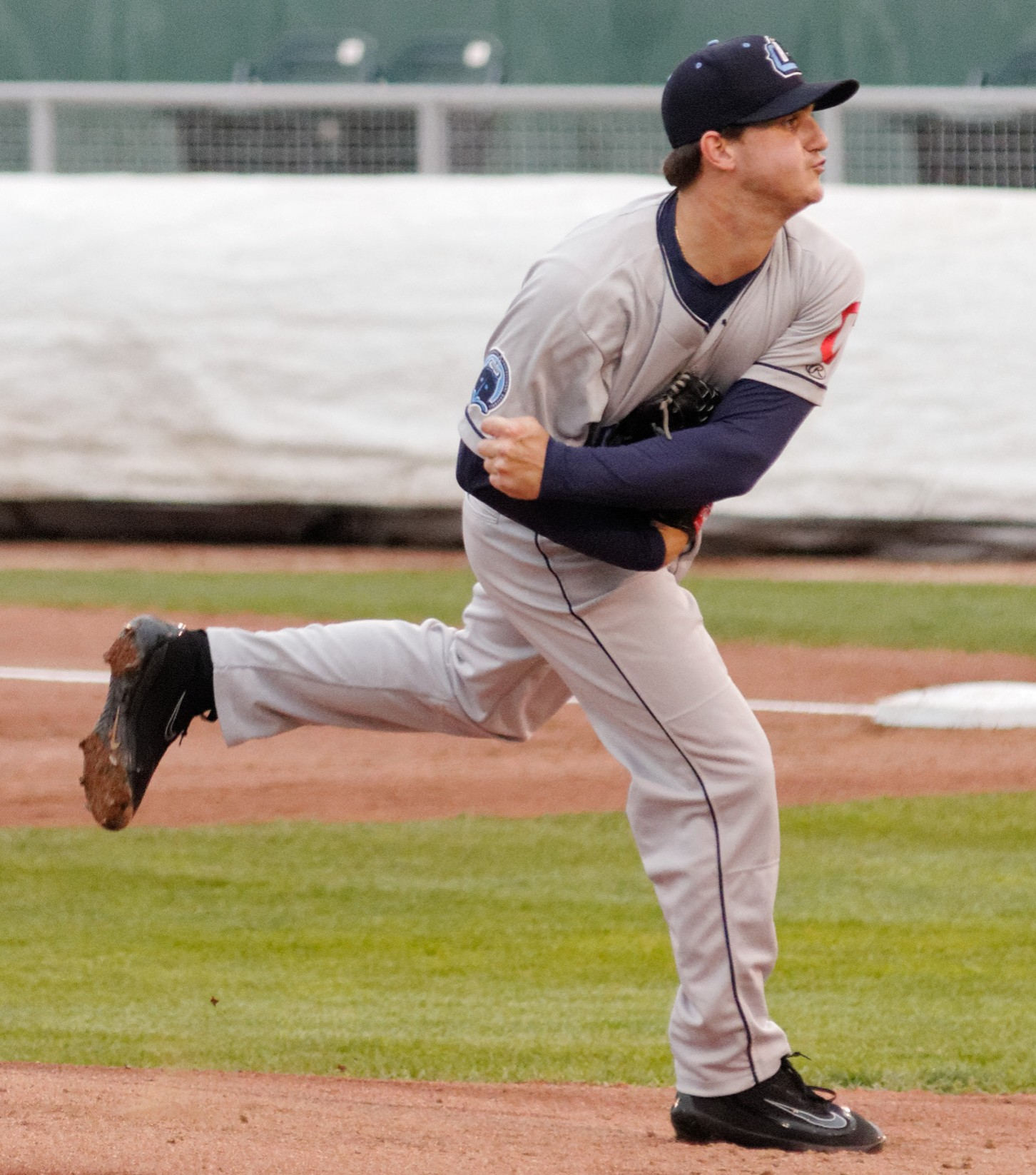 Thomas Pannone of the Lake County Captains delivers a pitch in a game against the Lansing Lugnuts in 2016. Cropped from the original because the Upload Wizard wouldn't accept the original file.